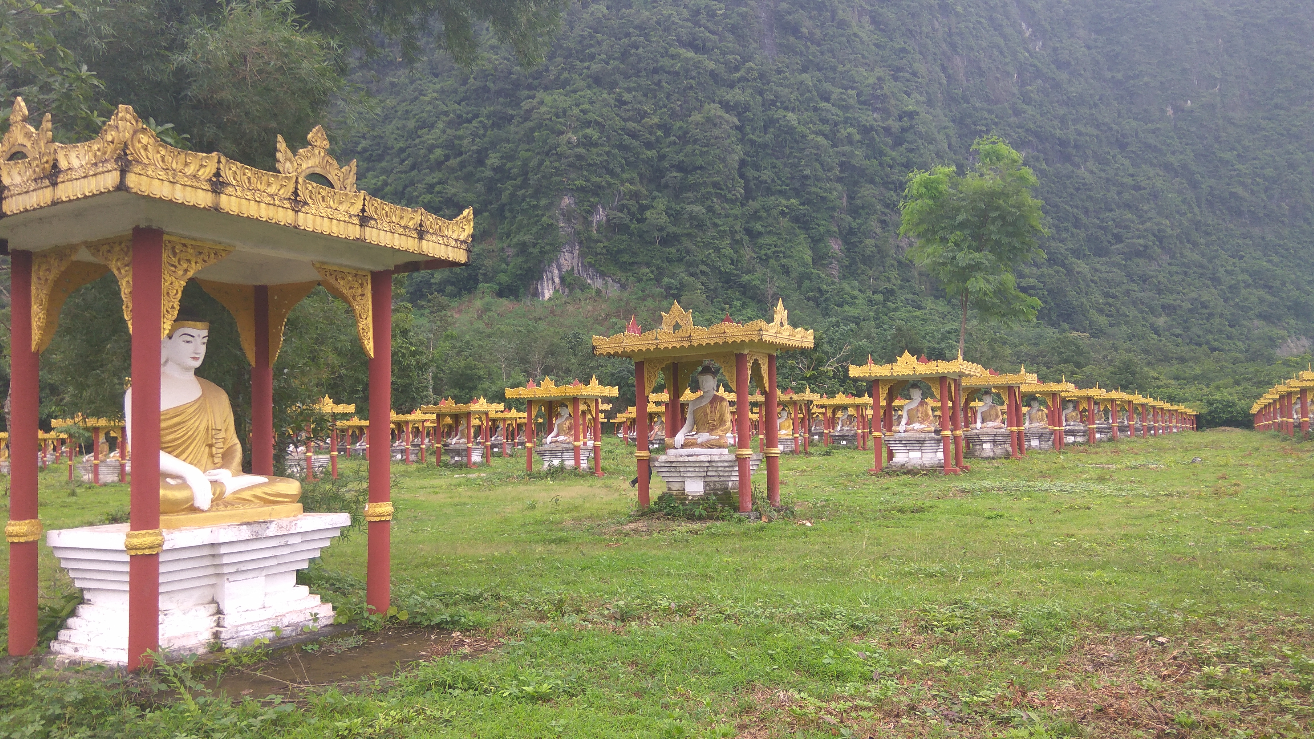 BawDi 1000 Buddha Images, Foot of ZawGaBin Mountain, Hpa-An, Kayin State. မြန်မာဘာသာ: ဇွဲကပင်တောင်ခြေရှိ ဗောဓိတစ်ထောင်ဗုဒ္ဓရုပ်ပွားတော်များ၊ ဘားအံ၊ ကရင်ပြည်နယ်။